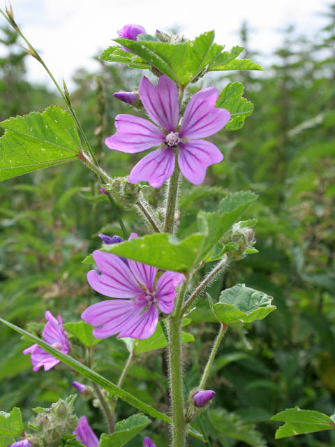 Common mallow (Malva sylvestris) This common wild flower can grow very tall and bushy if in a sheltered spot. This one was about 1 metre high. The darker lines on the petals are a guide to pollinating insects, especially bees. It has many traditional uses